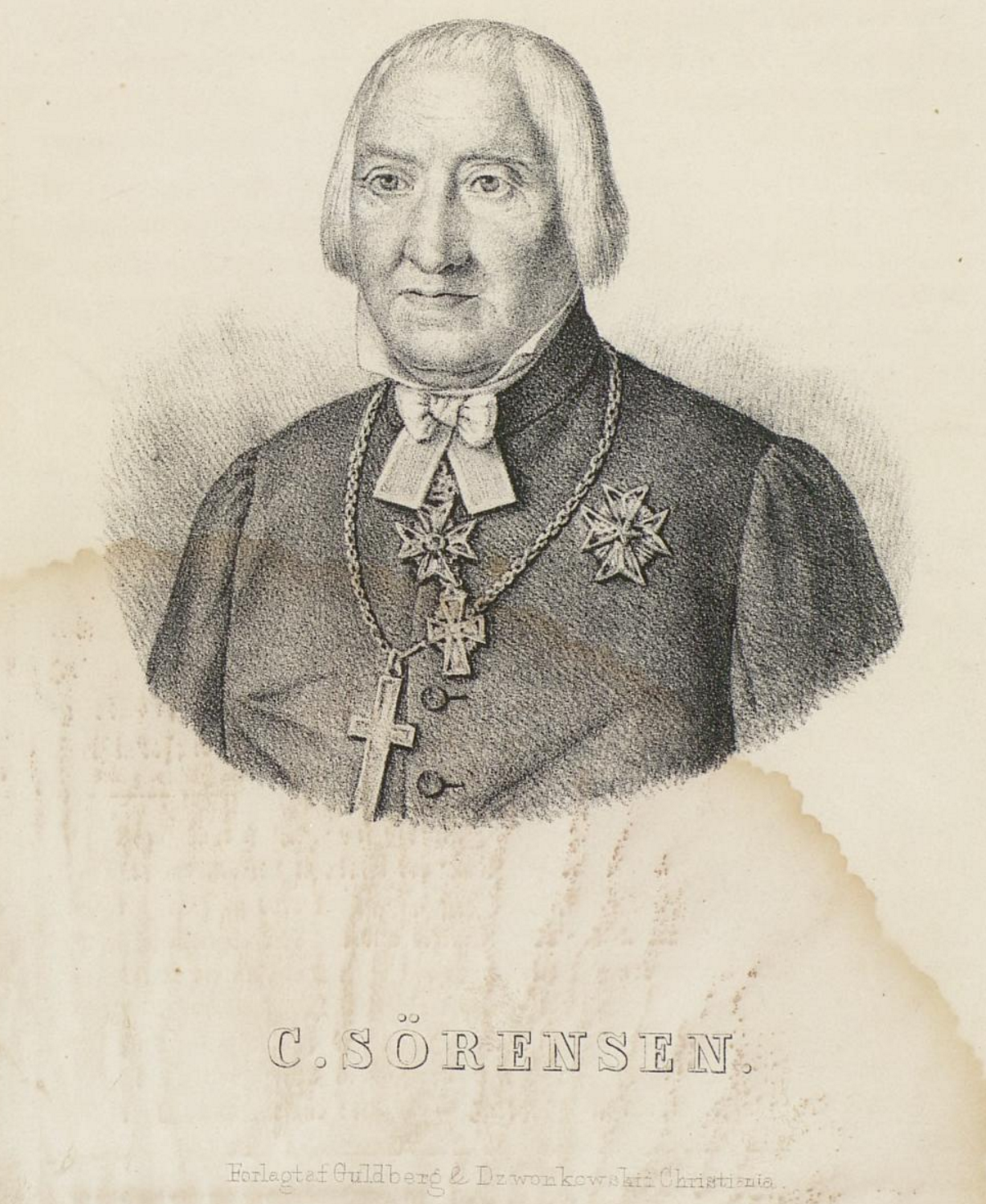 Lithograph of Christian Sørenssen (1765-1845), by "Em. Bærentzen & Co. Lith. Inst. i Kiøbenhavn"